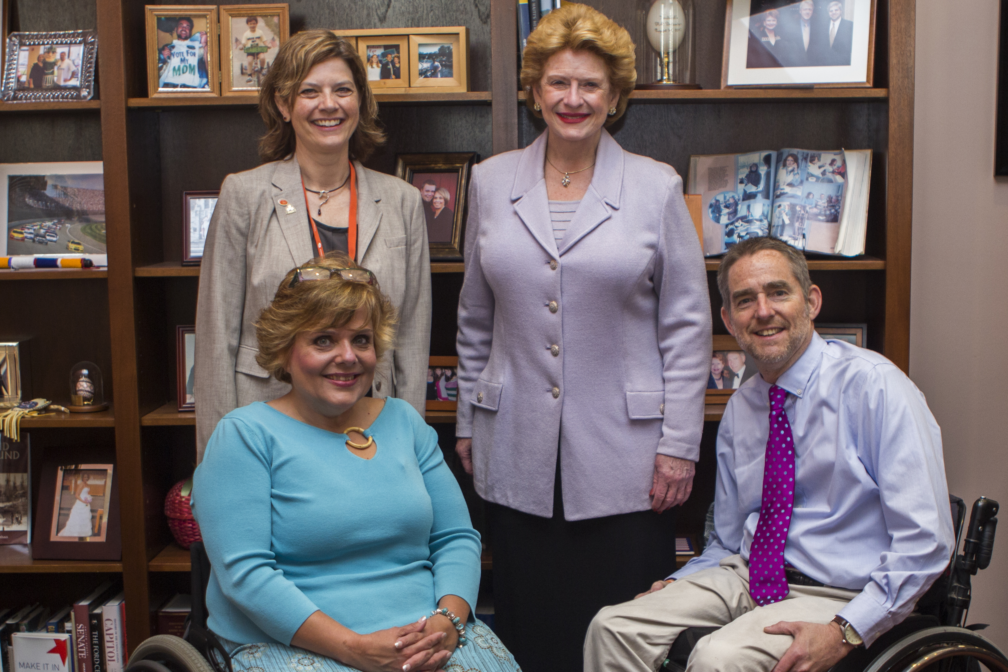 Photo provided by the office of U.S. Senator Debbie Stabenow.